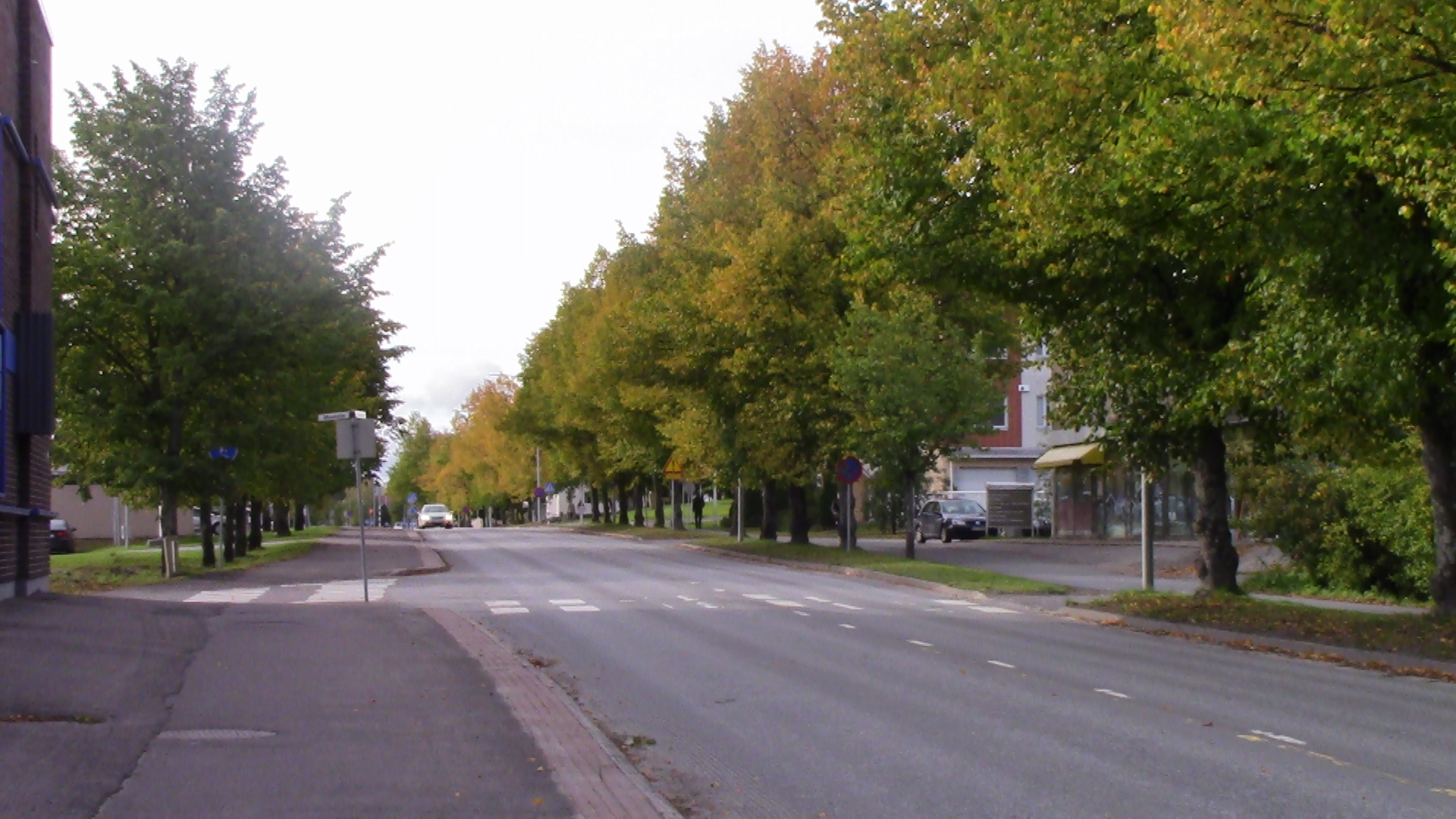 Finnish connecting road 6900 at Puistotie street in Kauhajoki, Finland. The road runs from Kauhajoki to Koskenkorva.